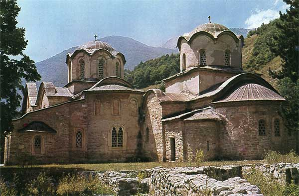 Patriarkana